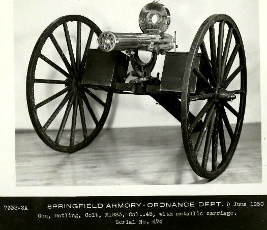 Gatling Gun Model 1887